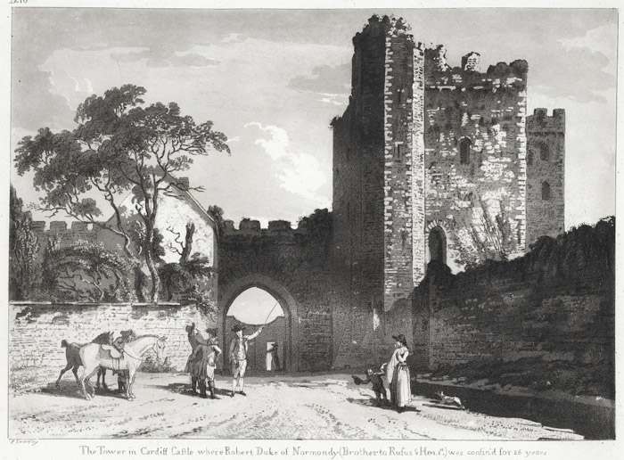 A view of men viewing the tower of Cardiff castle with a woman in the foreground with a baby and a young child.